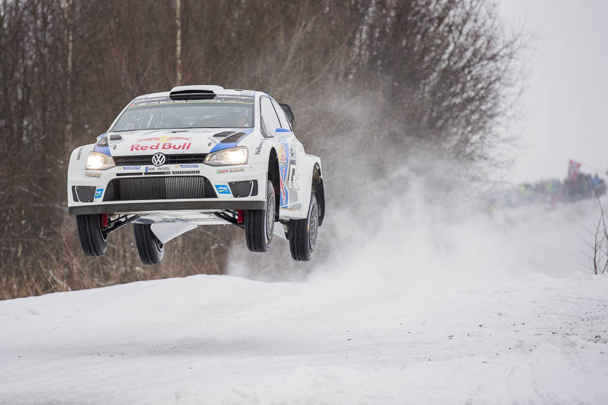 Rally Sweden 2014 Julien Ingrassia,Kirkener 1,Motorsport,Rally,Rally Sweden,Rallye,Rallye Schweden,SS3,Sebastien Ogier,VW Polo R WRC,Volkswagen Motorsport,Volkswagen Polo R WRC,WP3